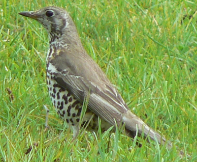 Mistle Thrush Turdus viscivorus in Essex, England.